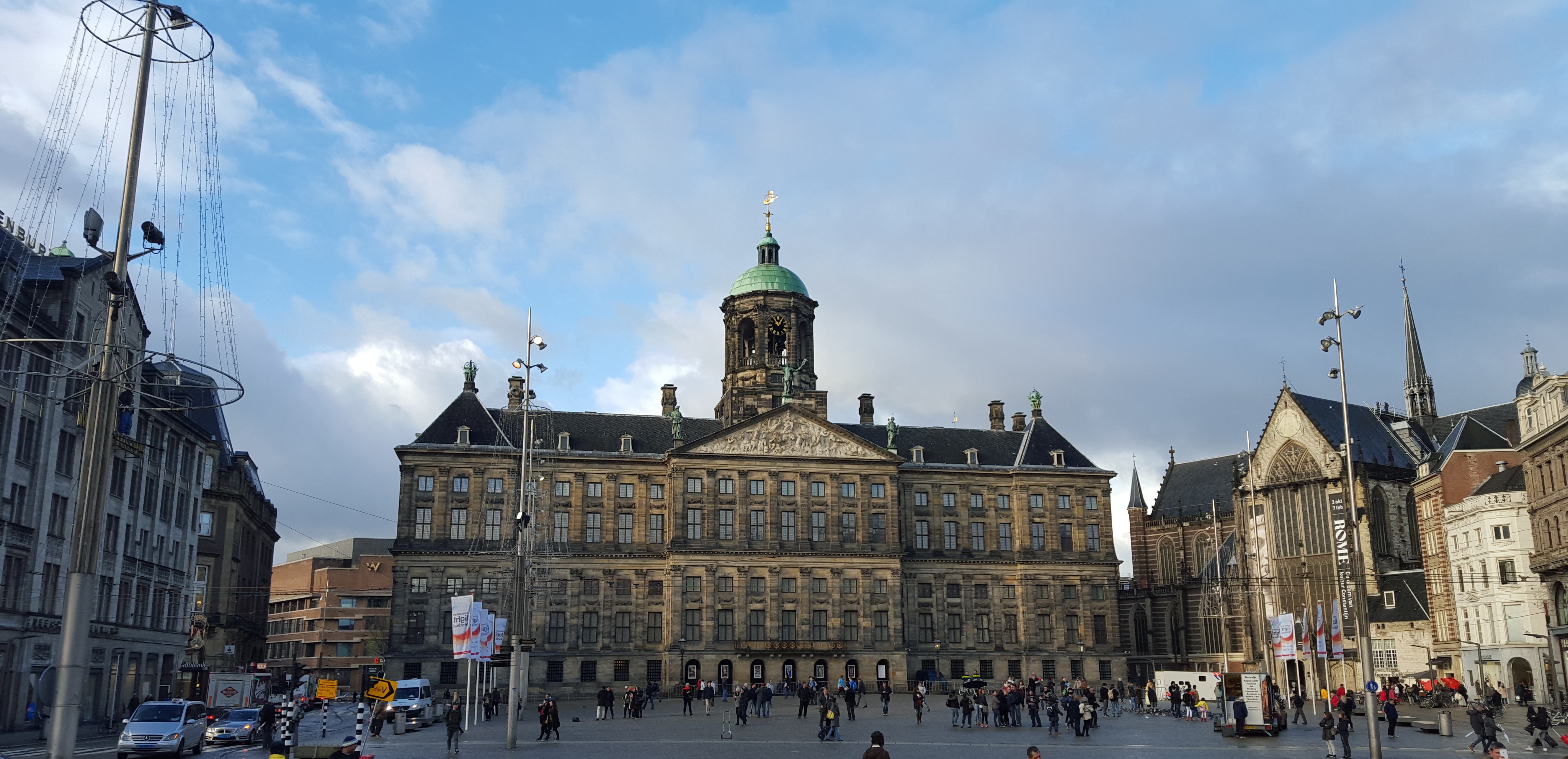 The Royal Palace on the Dam of Amsterdam on 25 November 2015, the morning of the ceremony of the Erasmus Prize